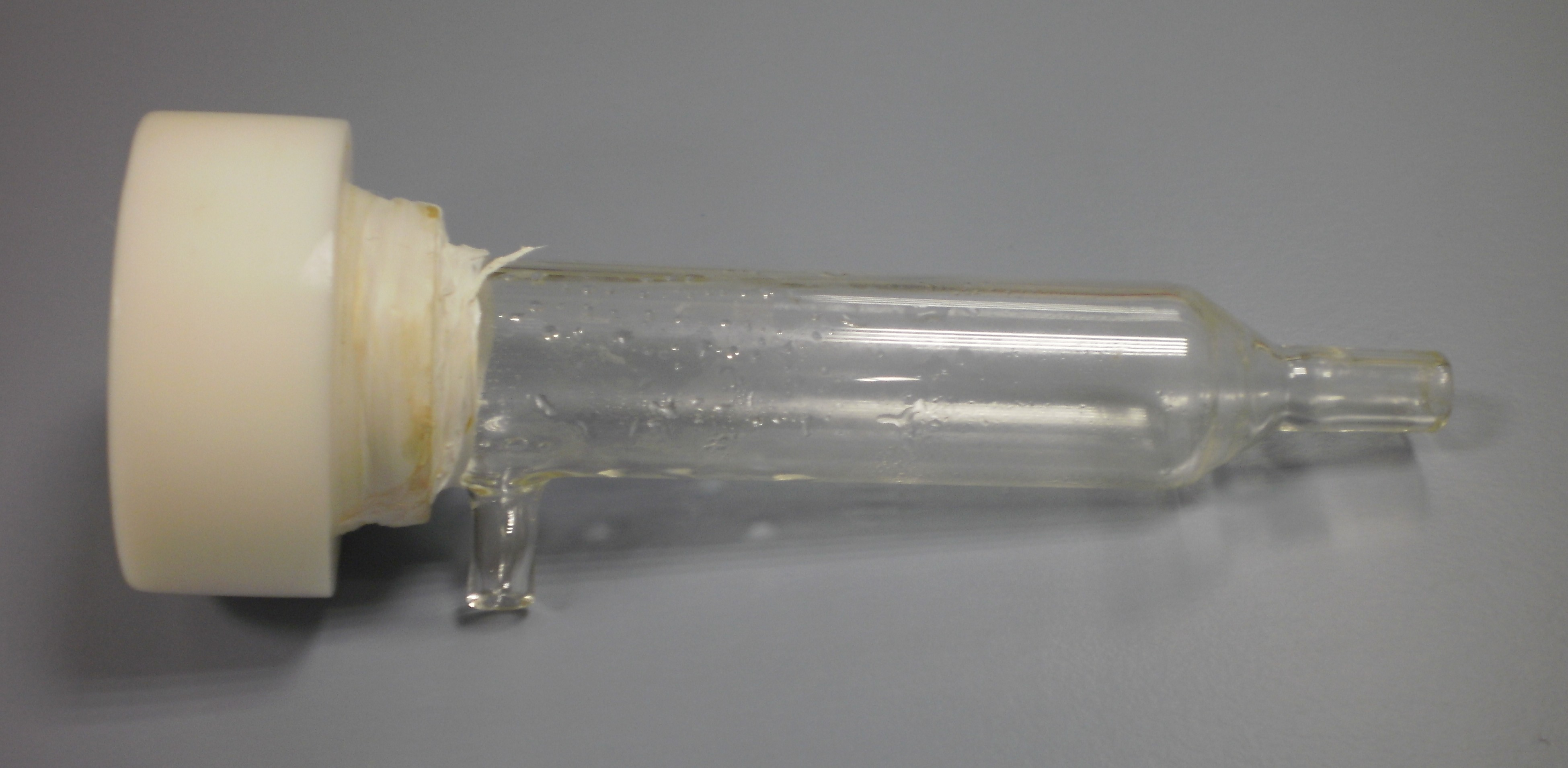 Single pass spray chamber